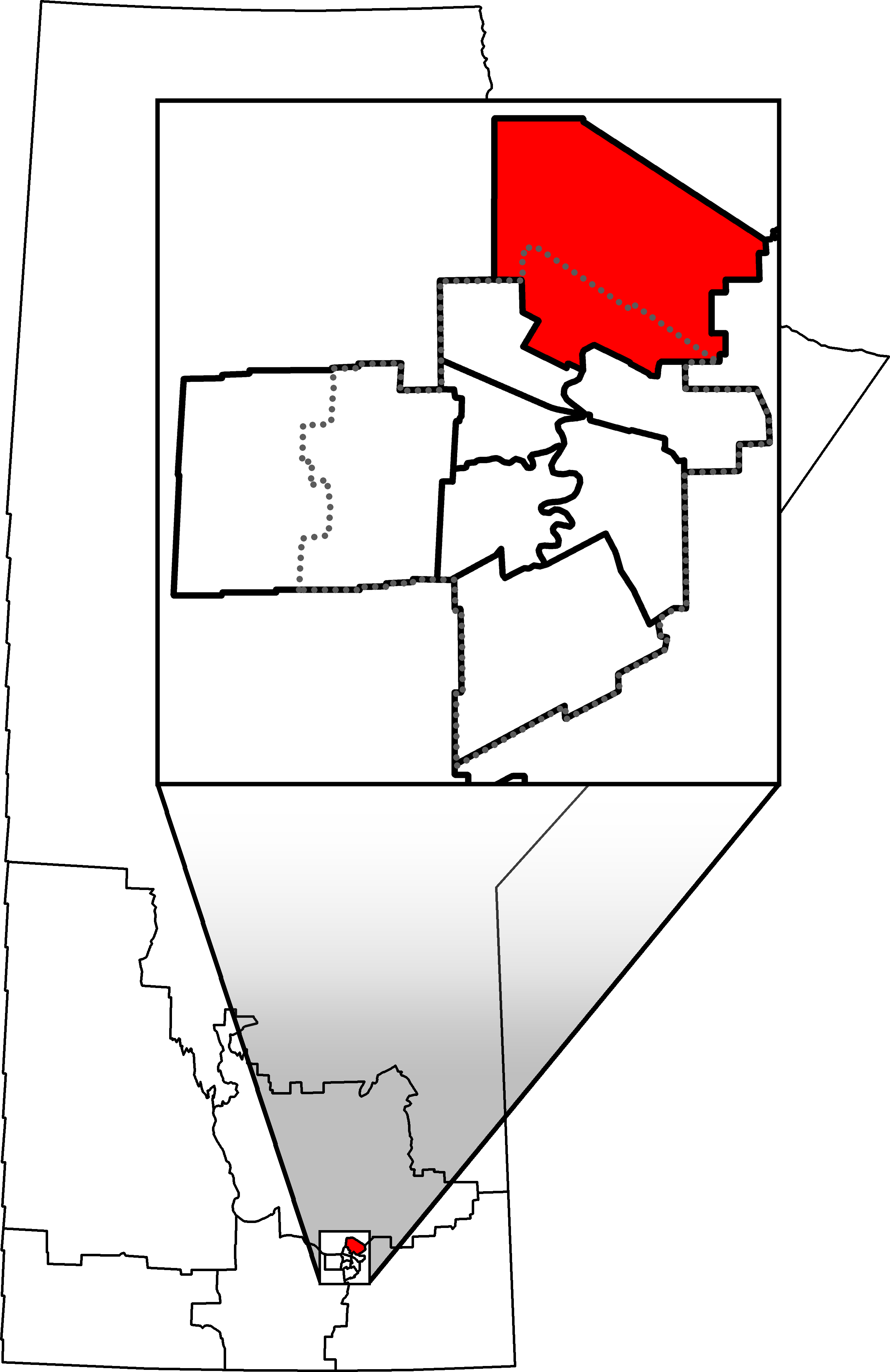 Federal Electoral District in Manitoba, Canada as of the 2013 Representation Order.